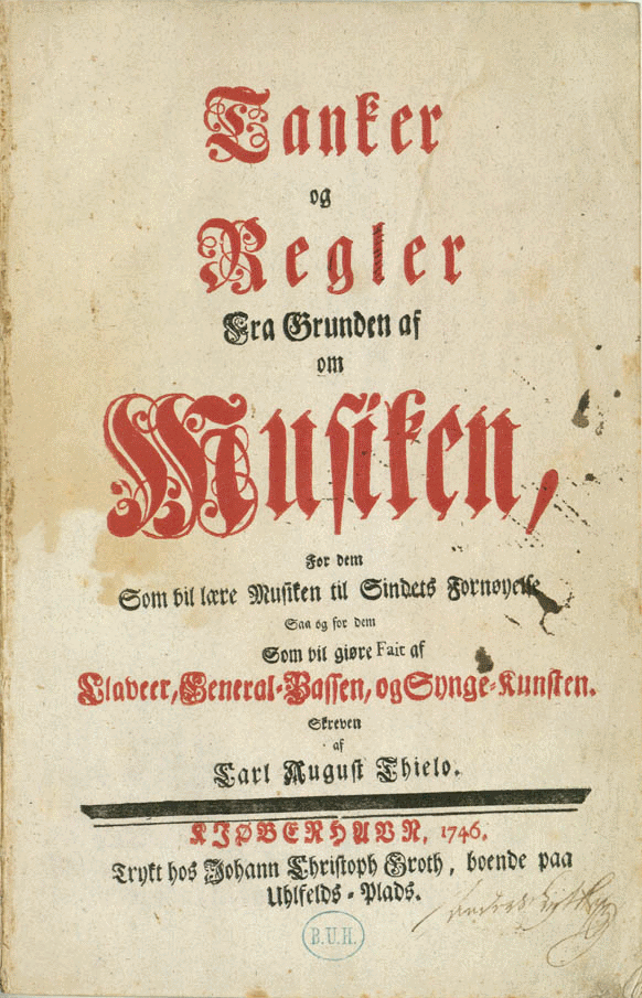 Carl August Thielo wrote the first book in Danish about music, Tanker og Regler Fra Grunden af om Musiken ("Basic thoughts and rules of music"). This is the front page of the book, which is scanned at the Royal Danish Library (kb.dk).